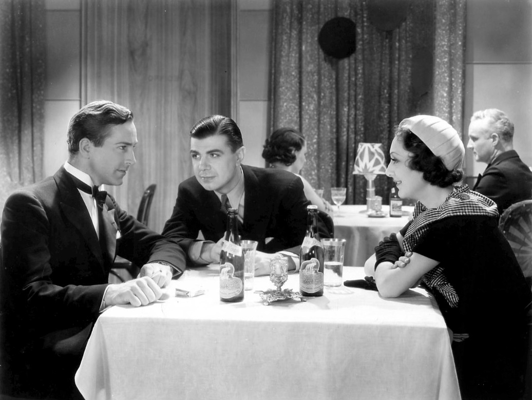 Photo from the 1932 film Crooner.